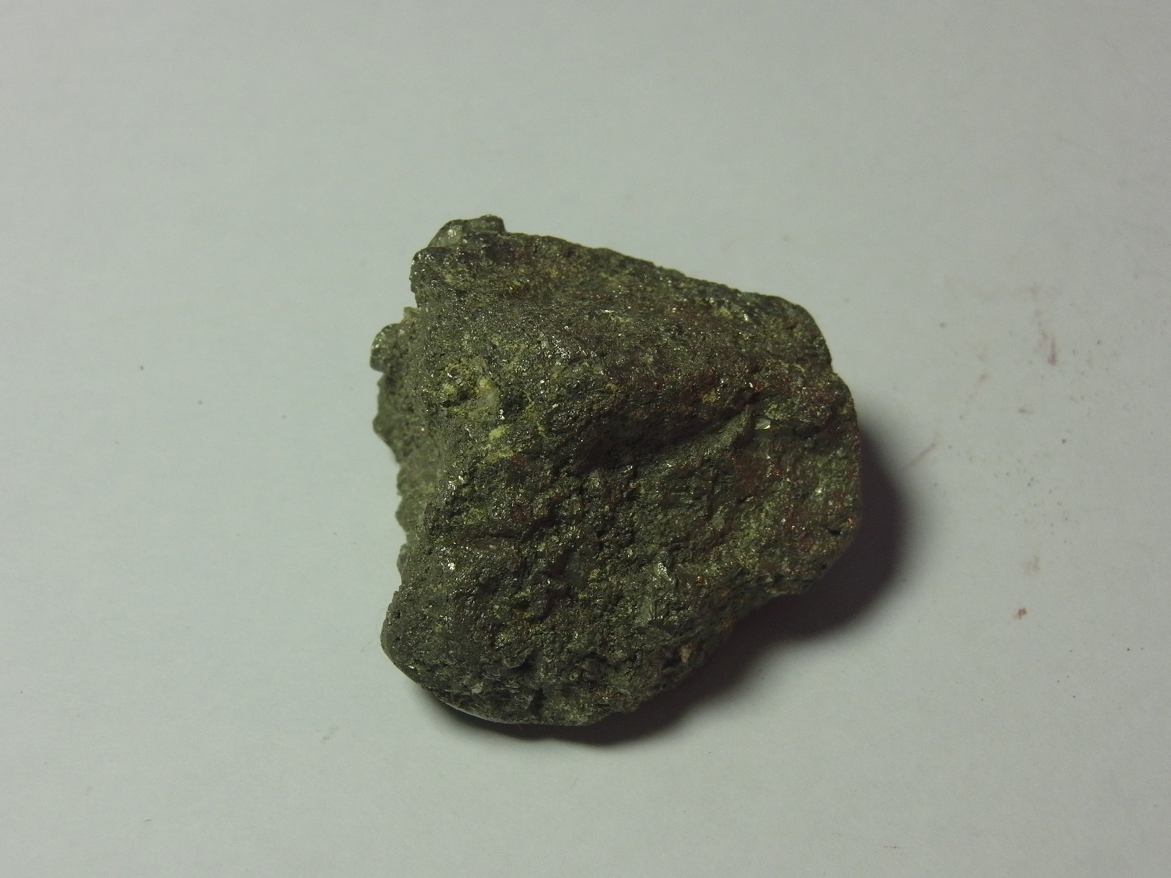 Pyrite sample